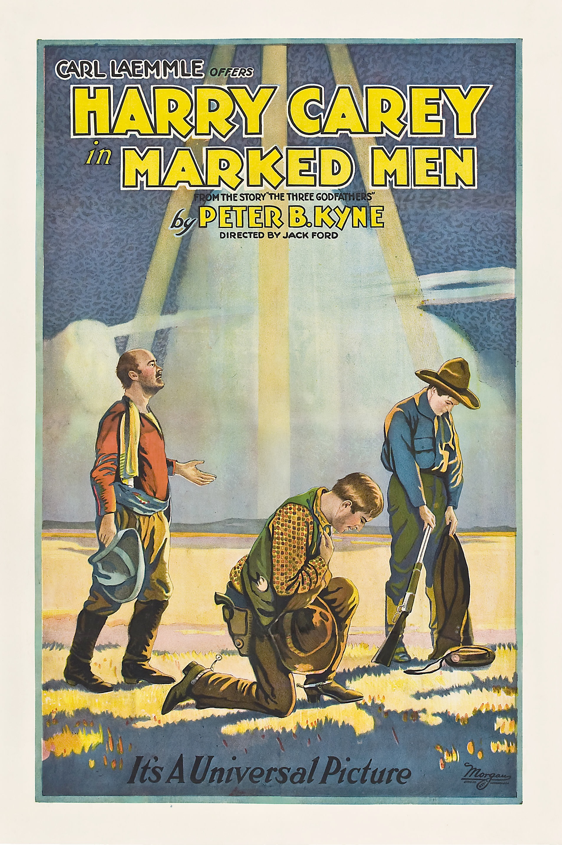 Poster for Marked Men. ©1919 Universal Studios